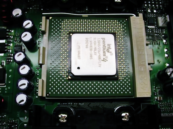 The 1.5 GHz Intel Pentium 4 Willamette installed in Socket 423